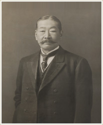 Kamiya, Denbei (1856 - 1922) a businessman, a fouder of Ushiku winery in Ushiku city.